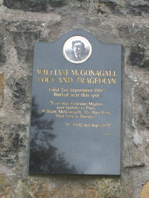 Grave of William McGonagall William Topaz McGonagall (1830-1902) spent much of his life in Dundee where for a time he was an actor. Later,in Edinburgh,he was feted by university students who played to his vanity as a poet of doggerel verse. Indeed he is quoted as saying, "I bow the knee to no man, nay not even Shakespeare", and described himself as "Poet and Tradegian". Amongst his poems is 'The Railway Bridge of the Silvery Tay' about the Tay Bridge disaster.He is buried here in Greyfriars kirkyard near this recent memorial stone.